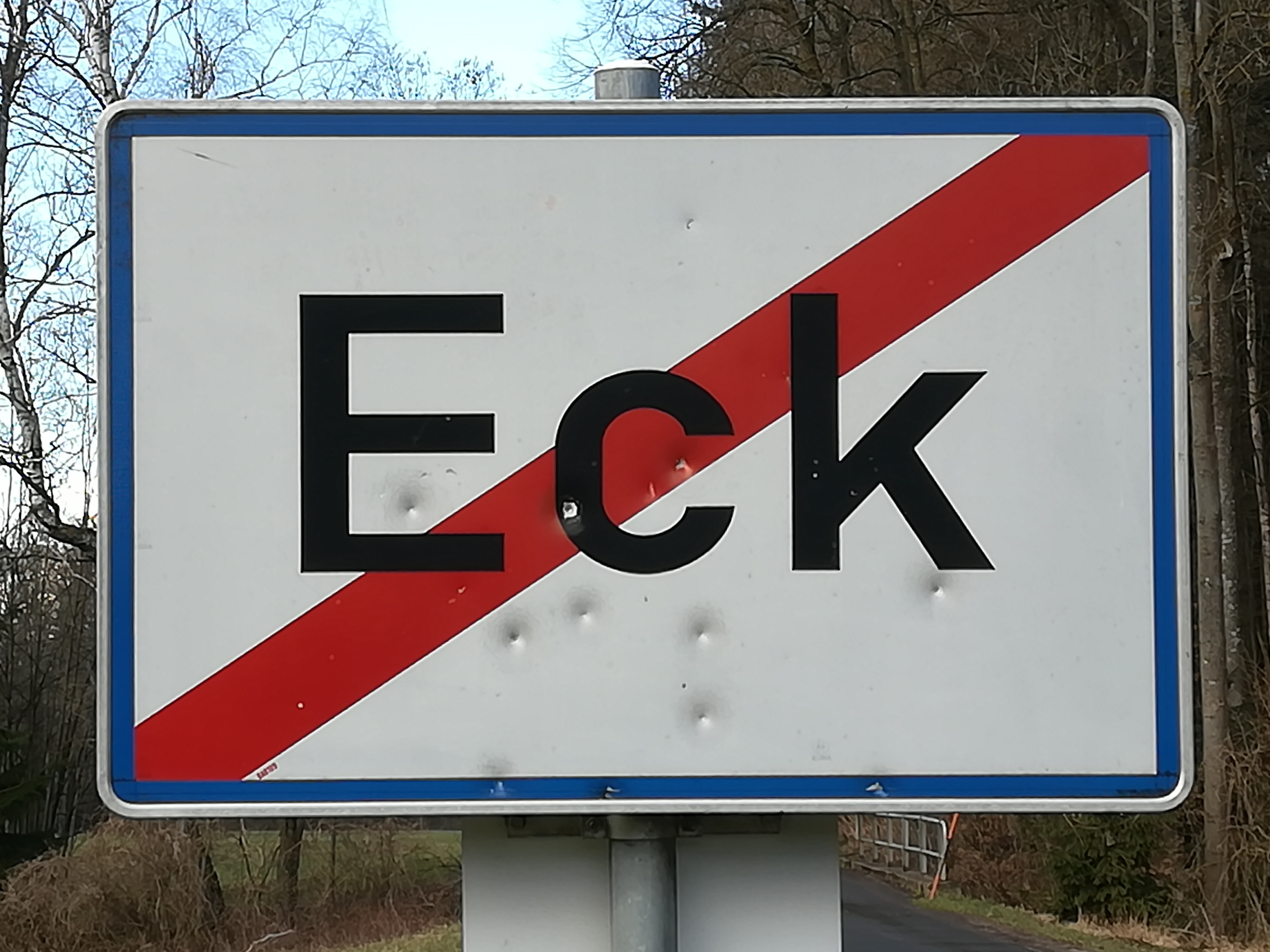 Exit sign of the village Eck, municipal Regau, Upper Austria, with bullet dents from plinking